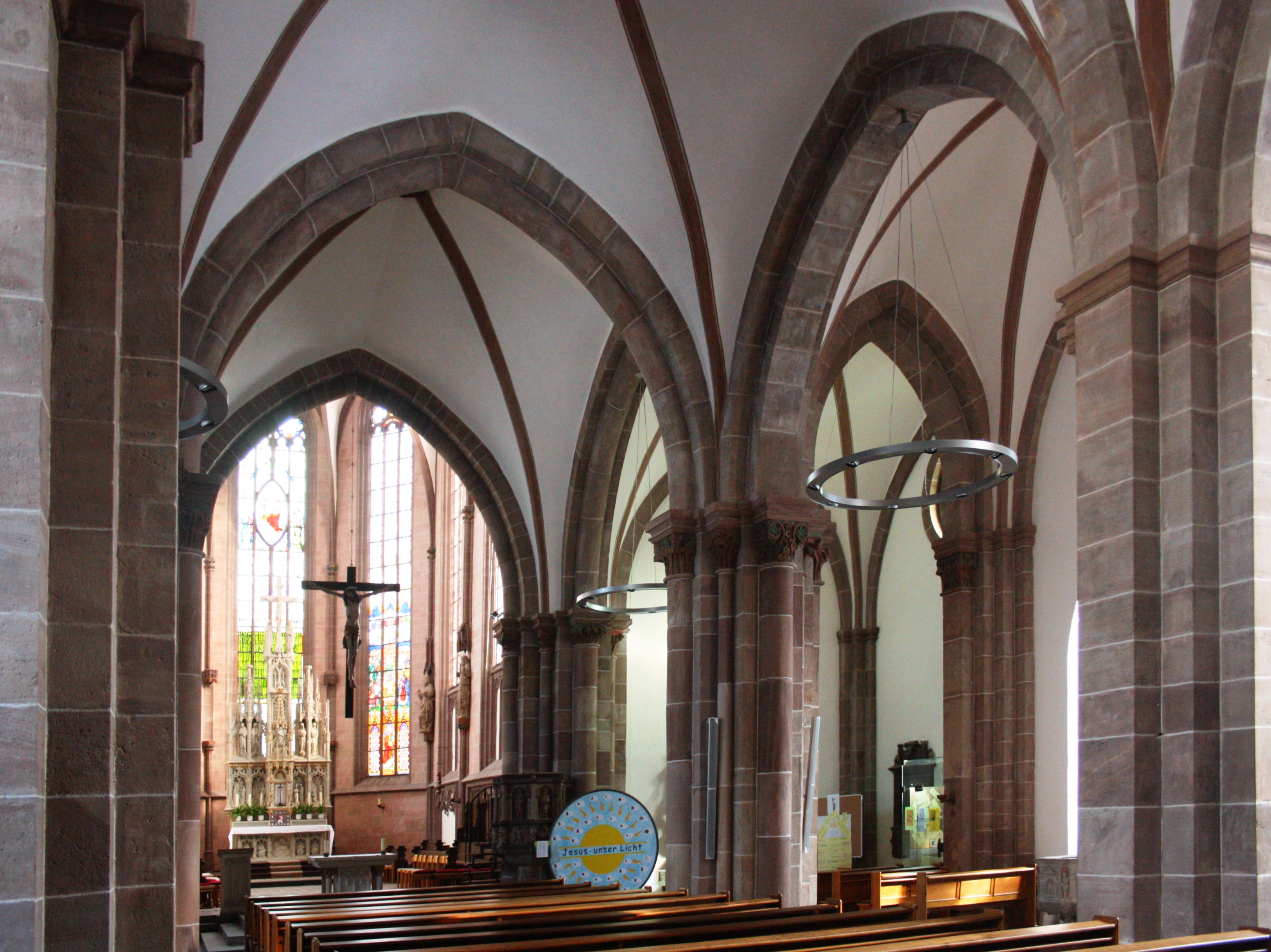 Warburg, Germany. Neustadt church, nave towards East.